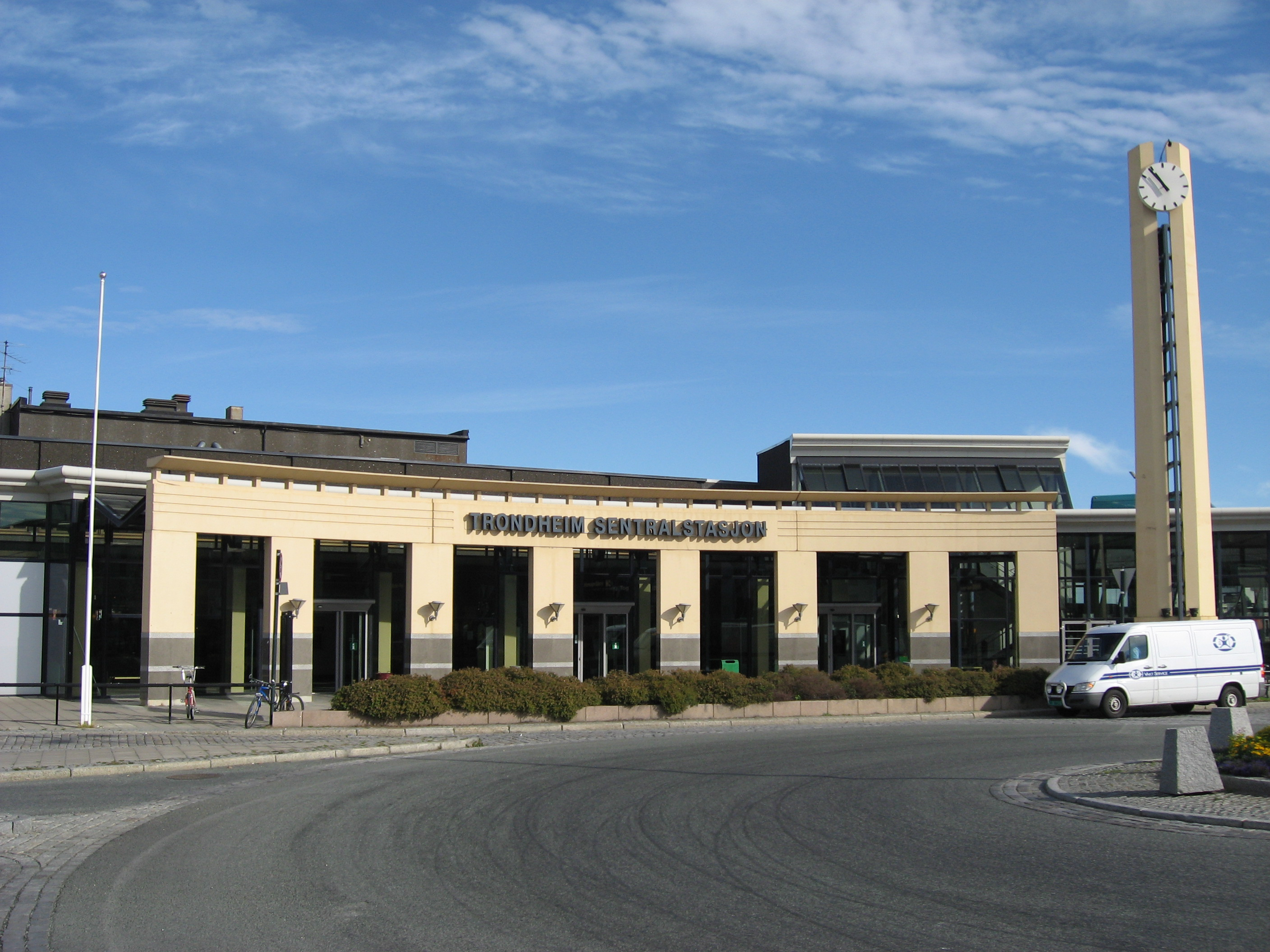 Trondheim Central Station, Trondheim, Norway. 2006-09-02 by Alan Ford